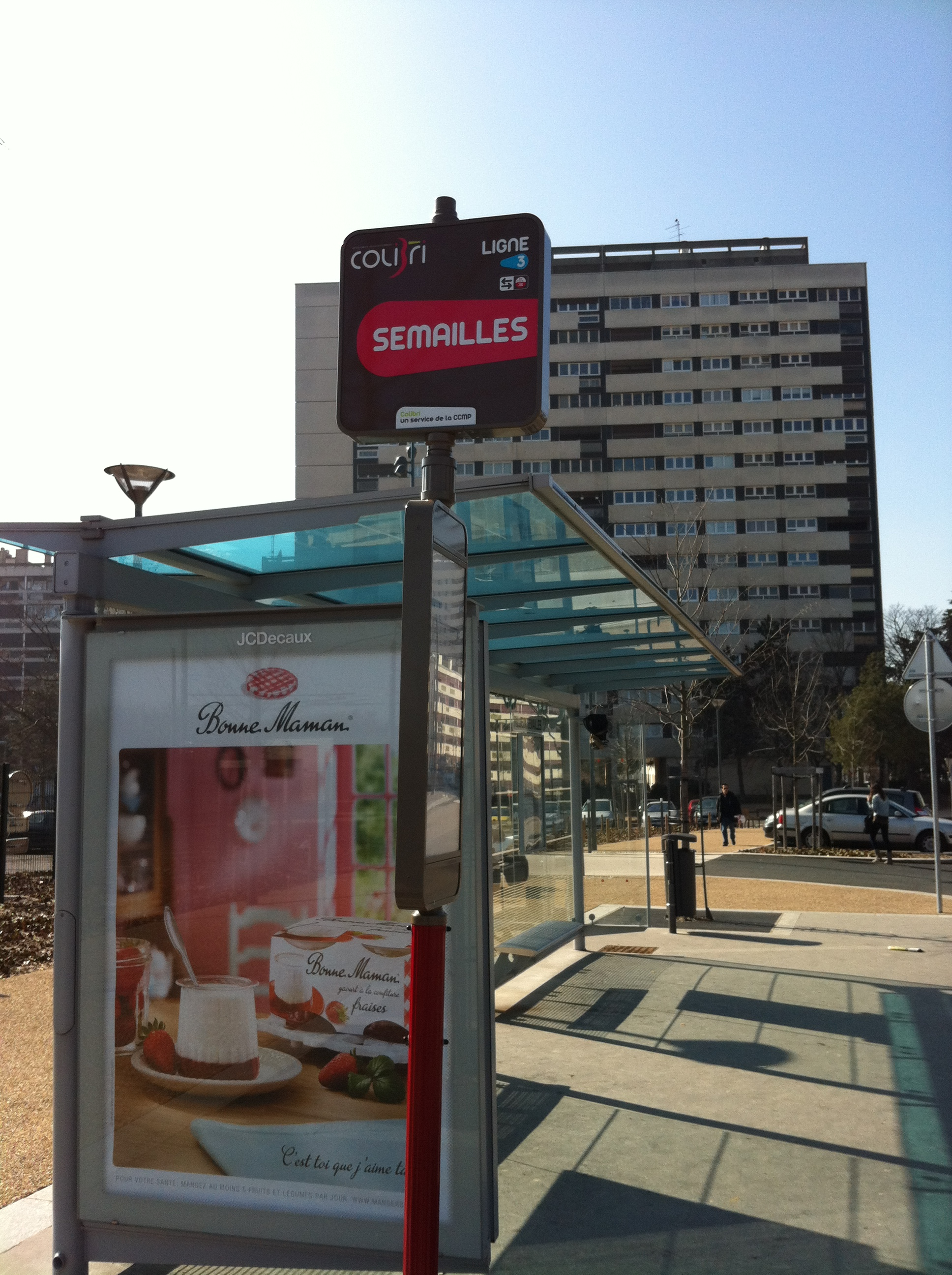 Semailles (Colibri bus stop).